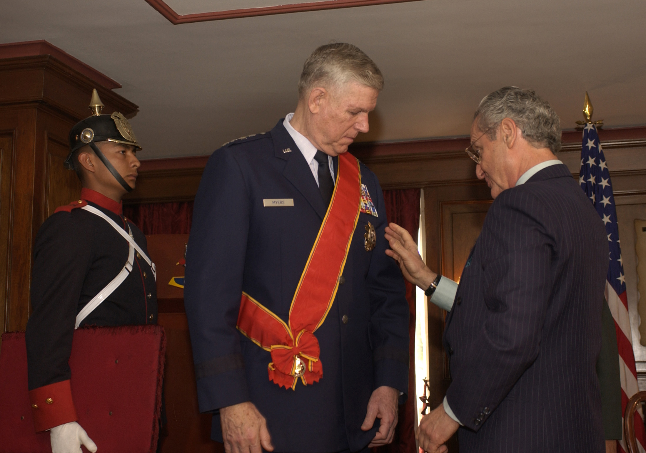 Colombian Minister of Defense Jorge Alberto Uribe Echevarria presents the Military Order of Merit, Great Cross to Chairman of the Joint Chiefs of Staff Gen. Richard Myers, U.S. Air Force, in a ceremony in Bogotà, Colombia, on April 11, 2005. Myers is in Colombia to meet with the military and civilian leadership to further military-to-military relations.